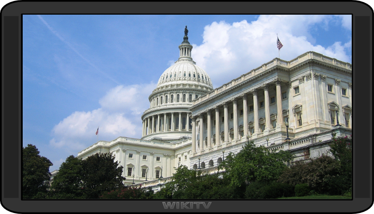 Aspect Ratio 16:9